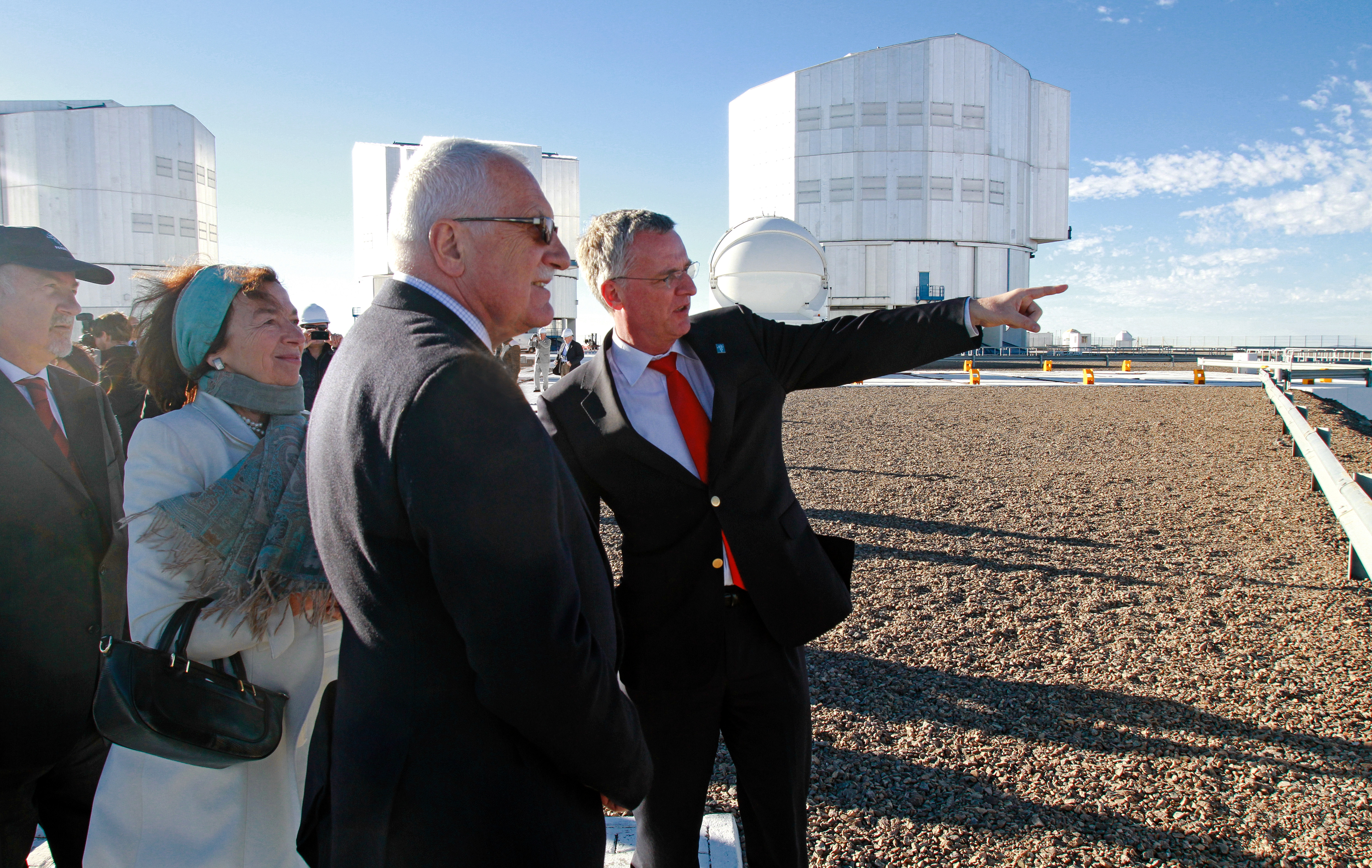 On 6 April 2011, the ESO Paranal Observatory was honoured with a visit from the President of the Czech Republic, Václav Klaus. In this photograph, taken on the summit of Cerro Paranal, the ESO Director General shows President Klaus and his wife Livia Klausová the nearby mountaintop of Cerro Armazones, selected as the site for the E-ELT. From right to left are: ESO Director General, Tim de Zeeuw, President Václav Klaus, Livia Klausová, and the ESO Representative in Chile, Massimo Tarenghi. Visible behind them are three of the VLT Unit Telescopes and one of the smaller Auxiliary Telescopes.